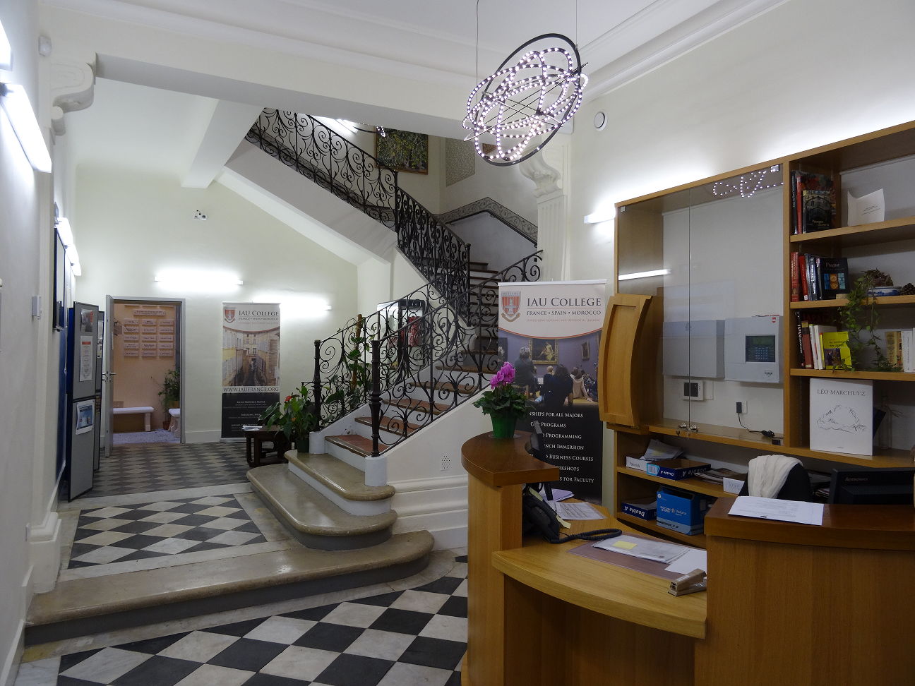 As part of its campus in Aix-en-Provence, Manning Hall houses IAU’s School of Humanities and Social Sciences and includes classrooms, a library, full-time support staff, and a health and wellness center.